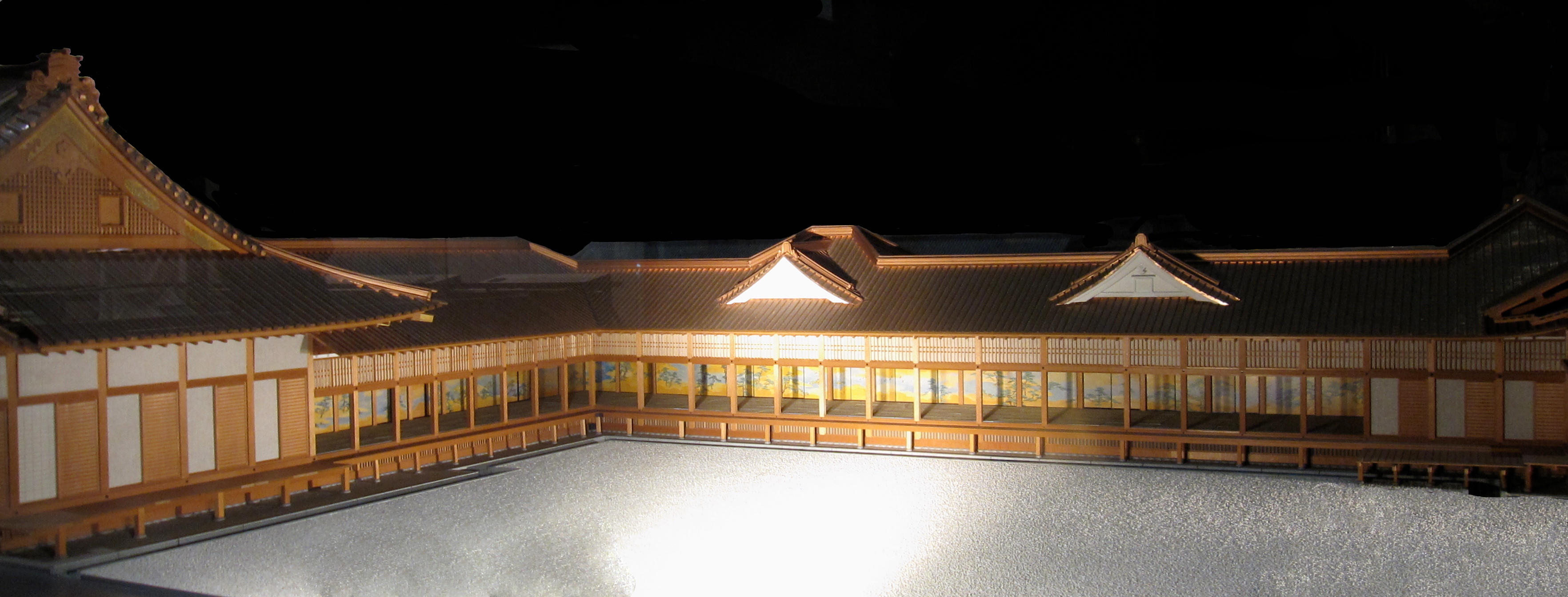 1:30 architectural model of the ōhiroma, matsu-no-rōka and shiroshoin rooms of Edo Castle, at the Edo-Tokyo Museum.